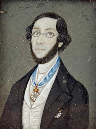 Portrait of Almeida Garrett (1843), signed "Santos".